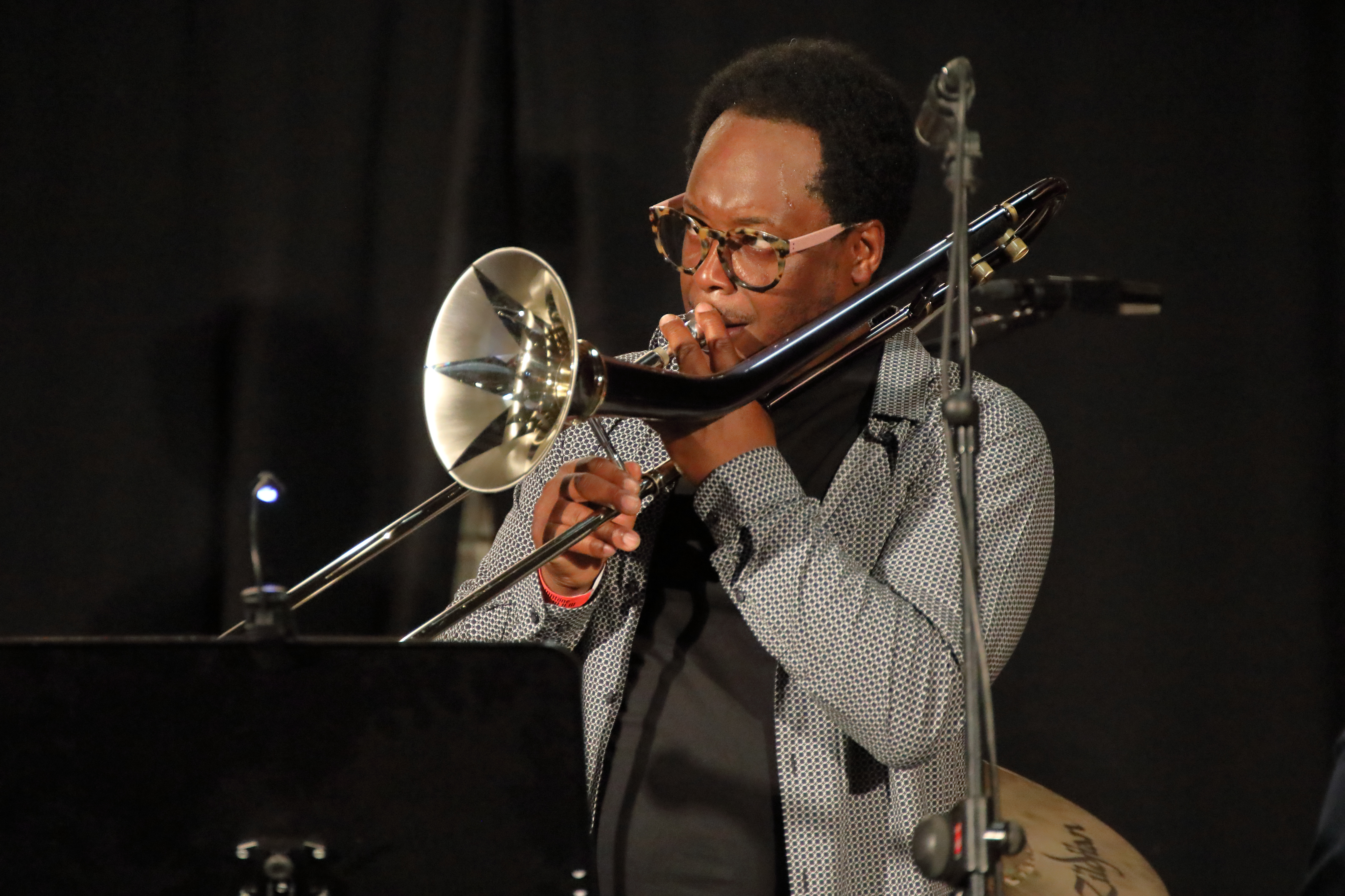 Trombone player Dennis Rollins withJean Toussaint Allstar Sextet performs Brother Raymond at INNtöne Jazzfestival 2019.